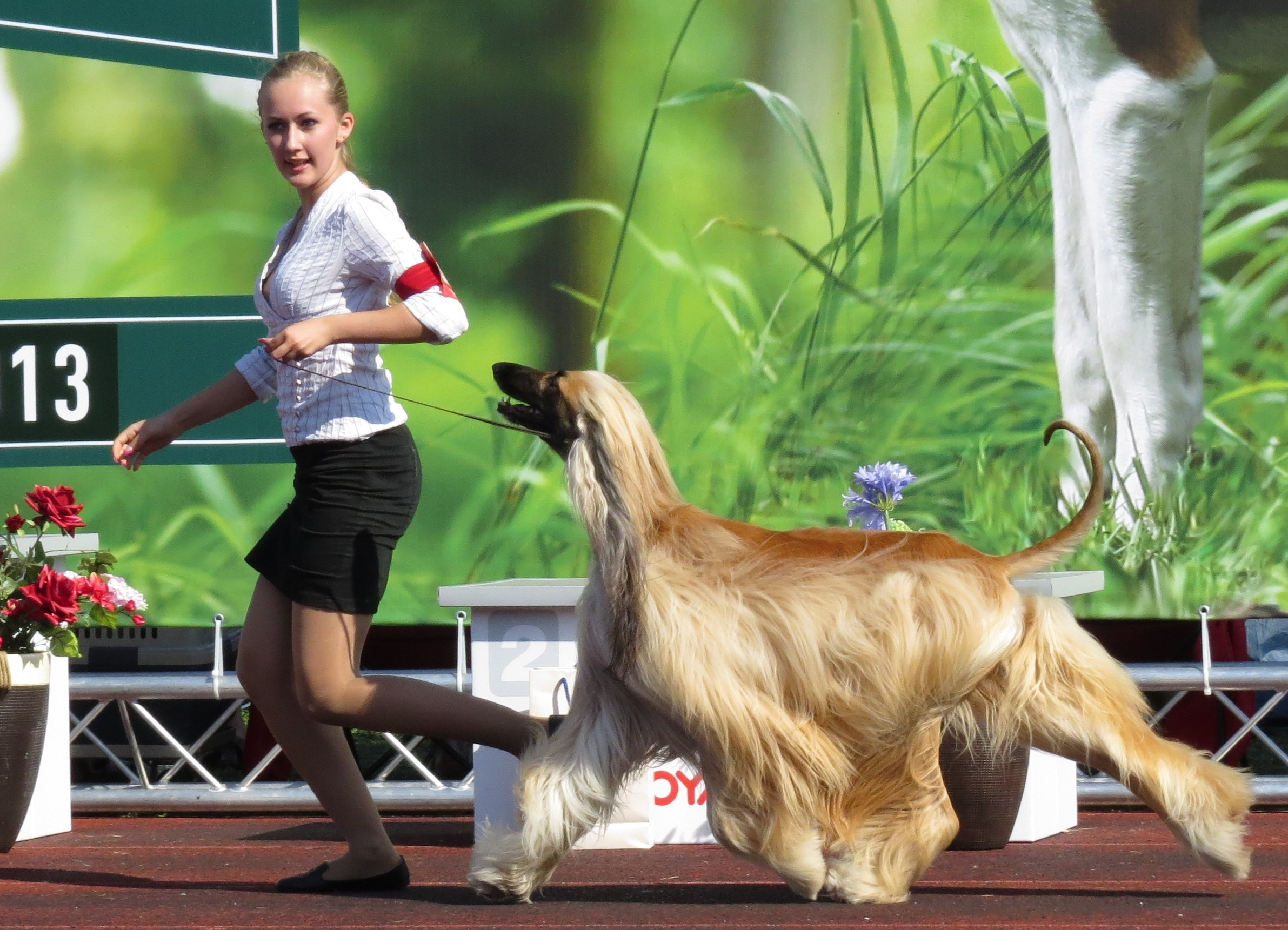 Afghan Hound in Tallinn duo CACIB, 17-18 Aug 2013, handler competition